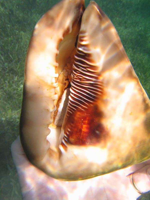 King helmet (Cassis tuberosa), Bahía de la Chiva, Vieques, Puerto Rico